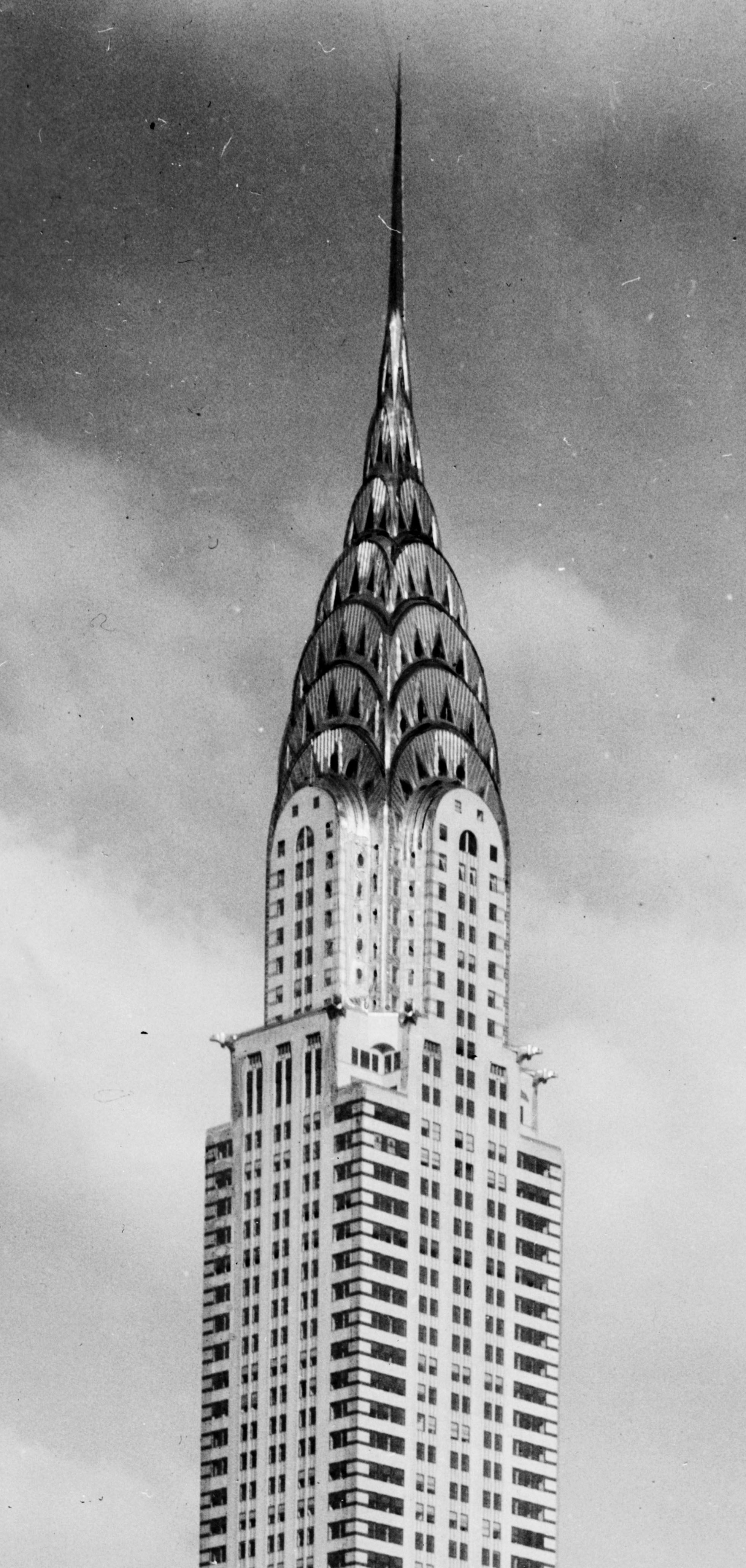 [Chrysler Building, New York, N.Y.]